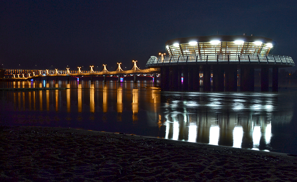 The pier in Płock, Poland.